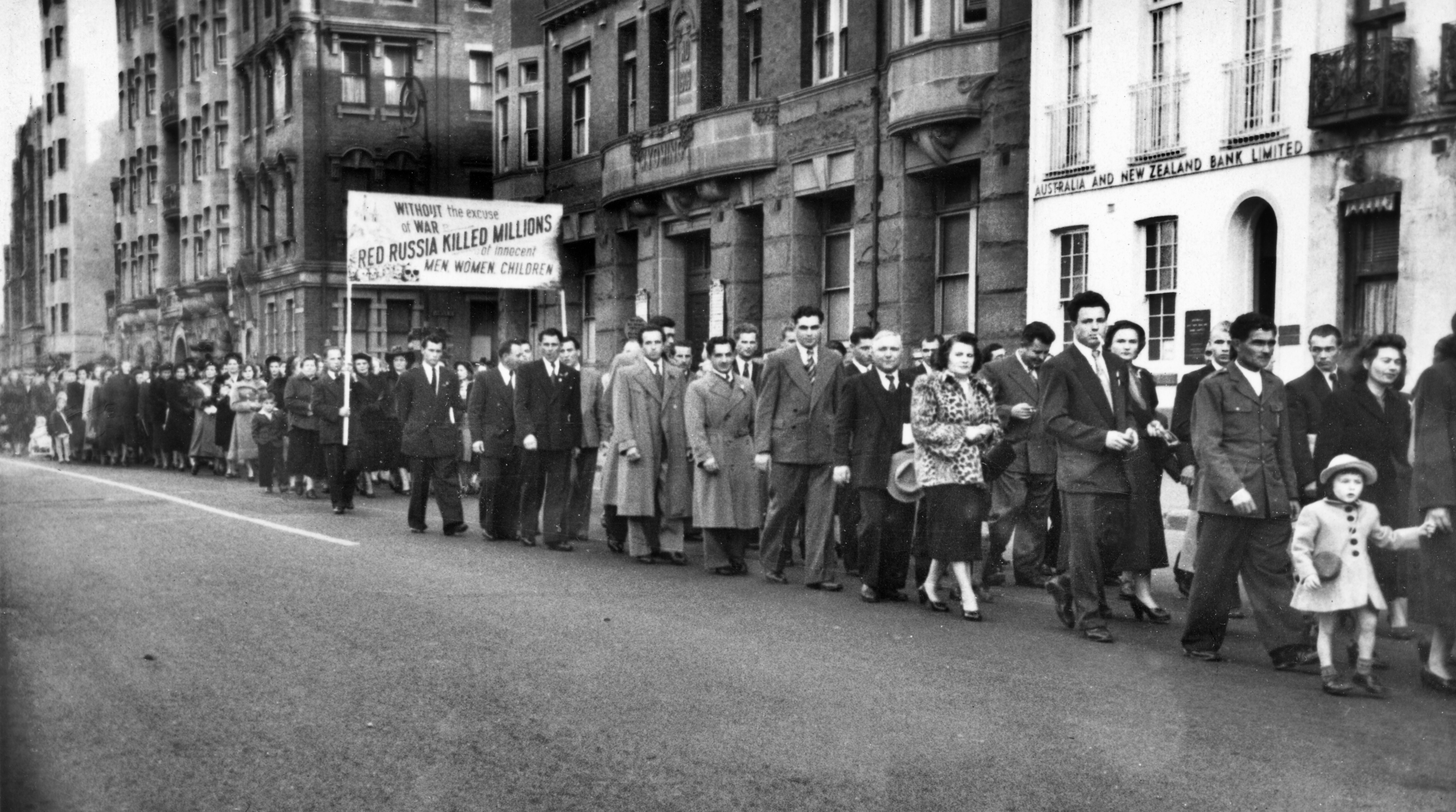 Ukrainians demonstrating against Russian Communism in Macquarie Street, Sydney. These people had just come from a Ukrainian Orthodox Church service at St. Andrew's Cathedral and were heading towards the Domain. There they were abused by Communists, as was reported in the papers.[1]